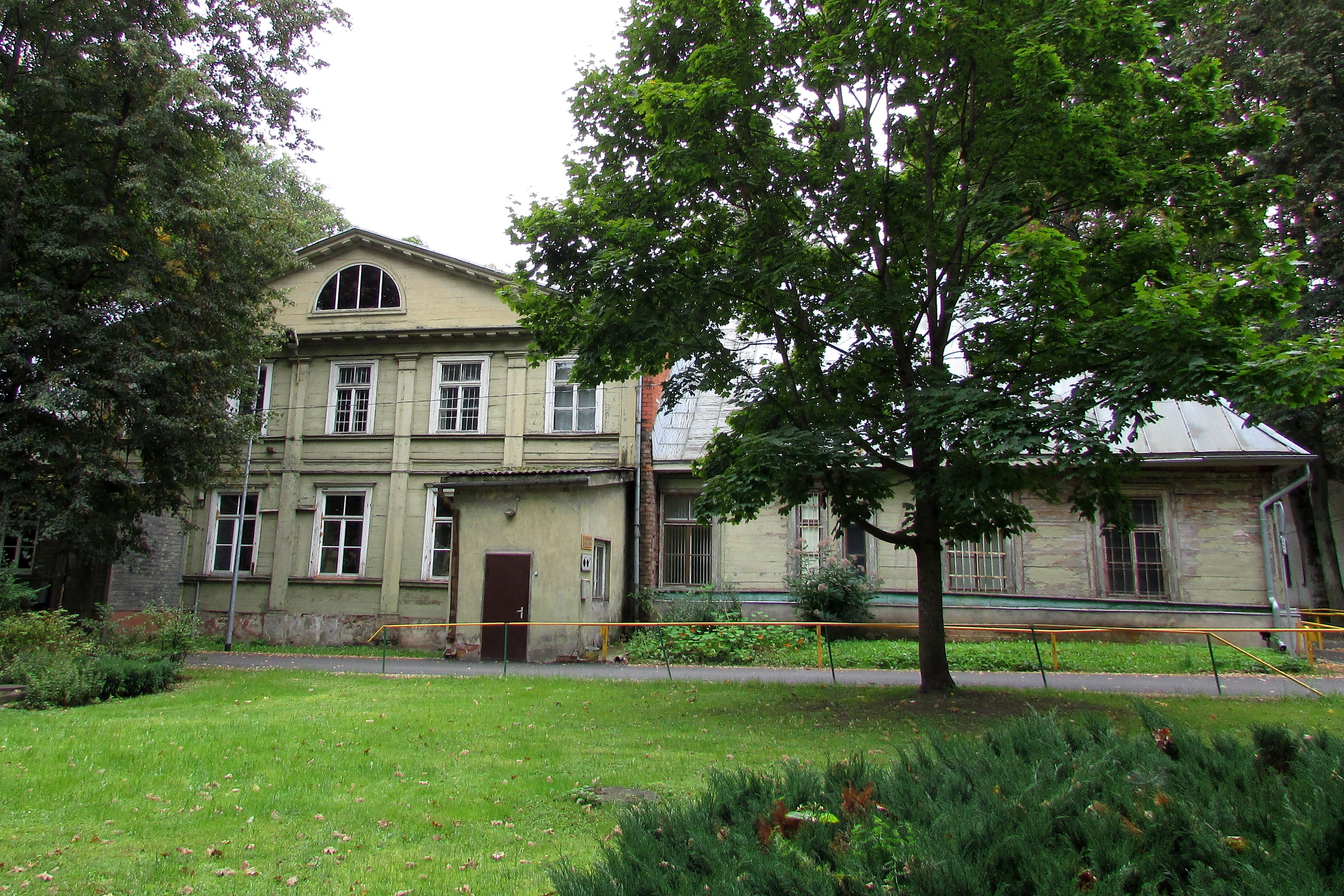 Strazdumuiza manor in Riga